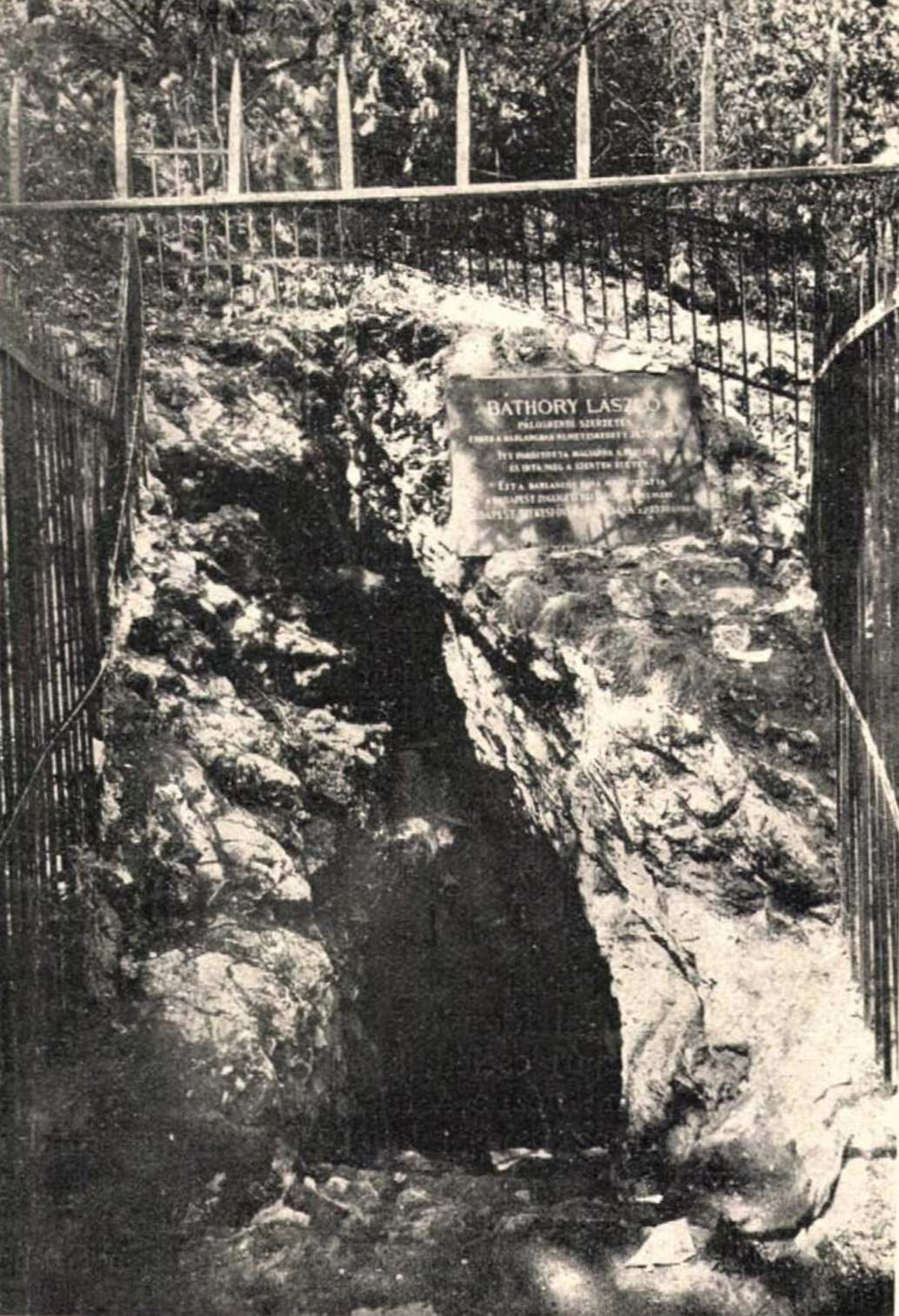 Commemorative plaque of László Bátori at Bátori Cave in 1911.